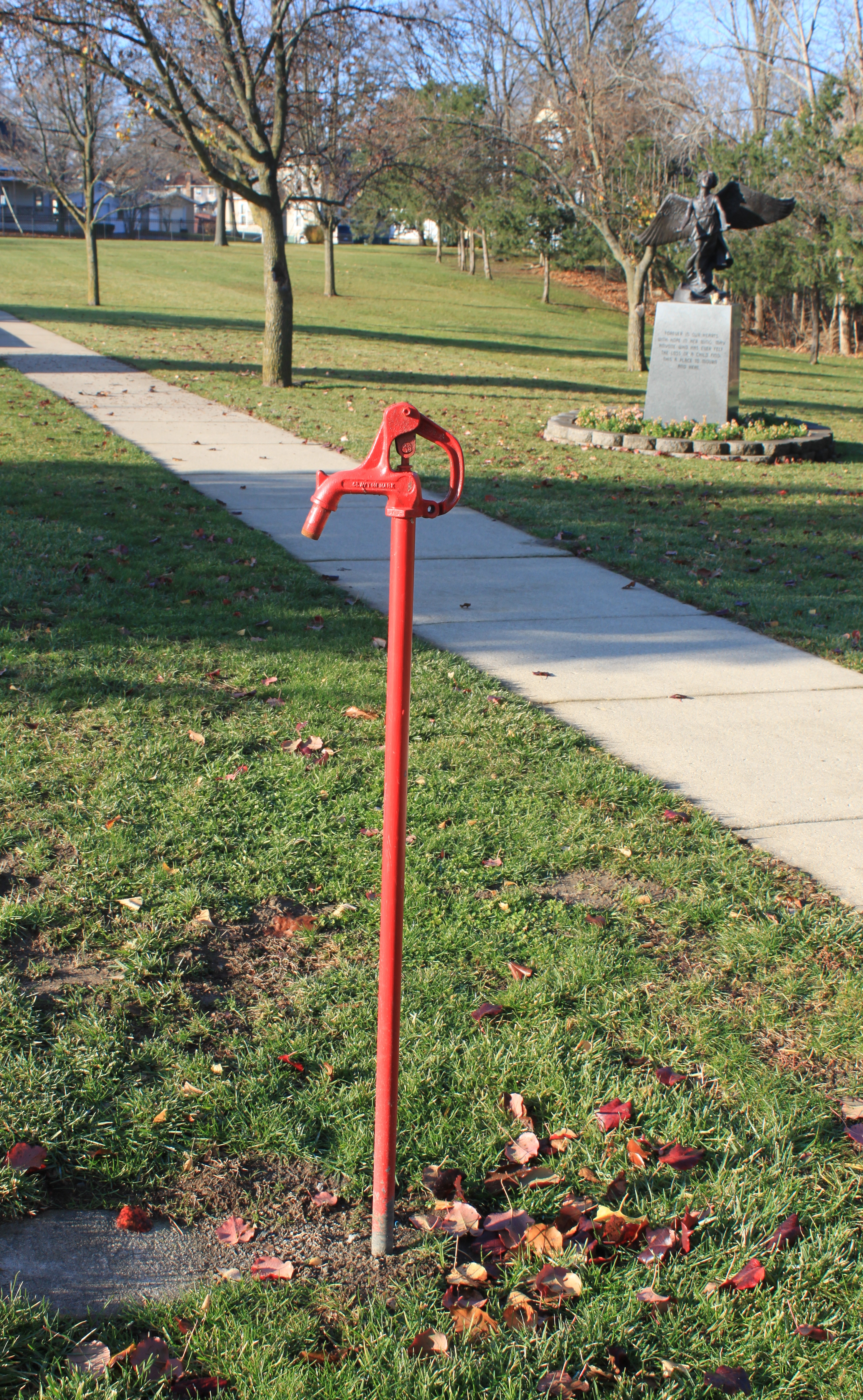 Clayton Mark yard hydrant, Oakwood Cemetery, 333 East Siena Heights Drive, Adrian, Michigan.